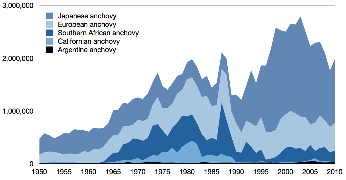 Global capture of all anchovy apart from Peruvian anchoveta in tonnes, 1950–2010, as reported by the FAO. Based on data sourced from the relevant FAO Species Fact Sheets